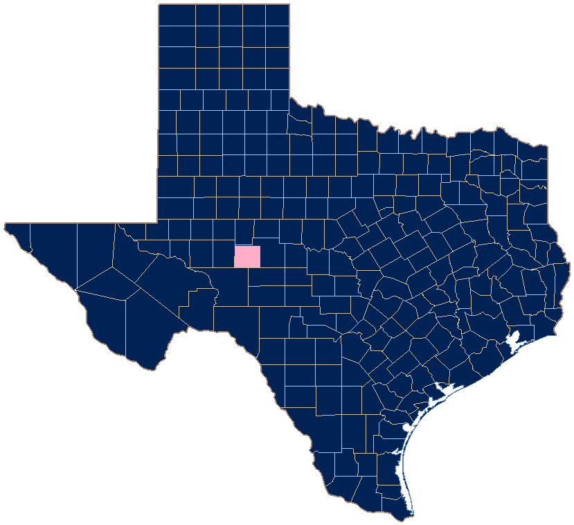 as of June 22, 2016, only Irion County (pink) refuses to issue licenses to same-sex couples. From Commons map. Colored per other SSM maps. Data from